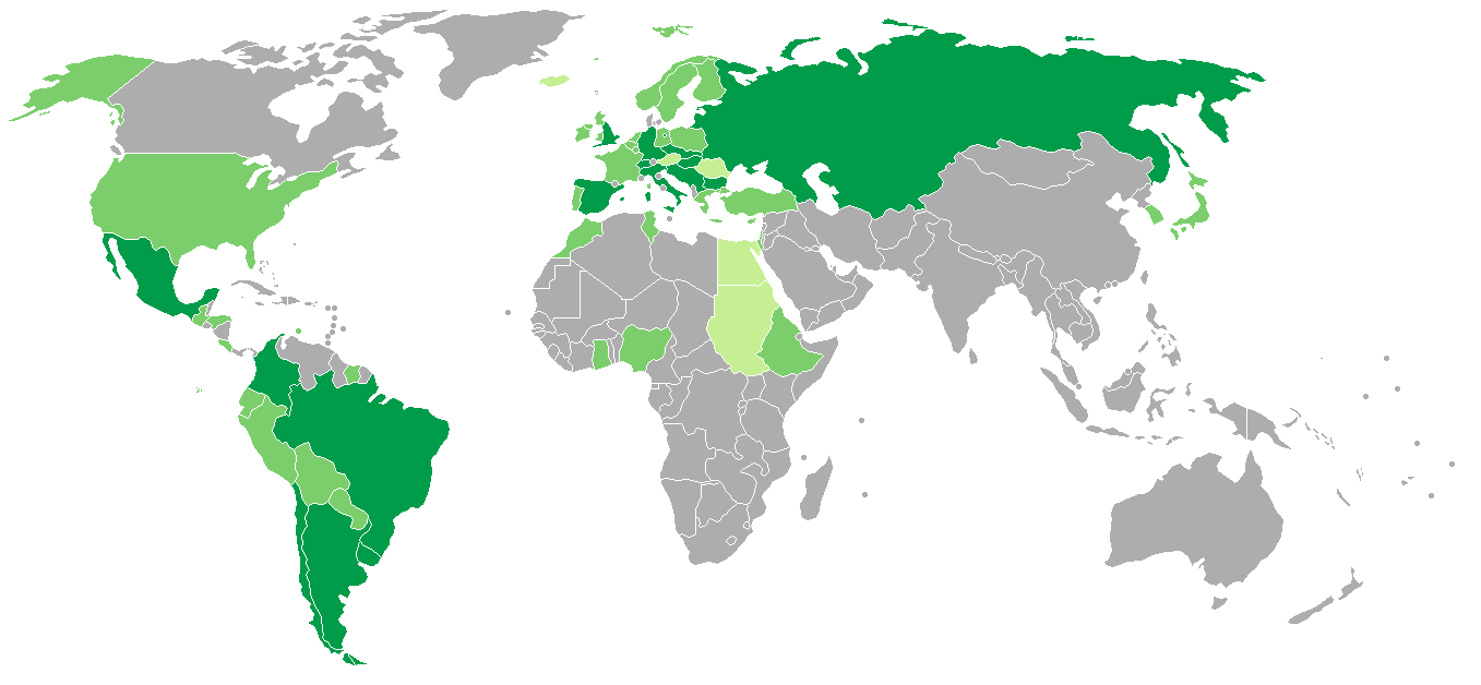 Qualification for the 1962 FIFA World Cup Country didn't participate Country withdrawed or entry didn't accepted by FIFA Country participated in the qualification tournament Country qualified to the finals